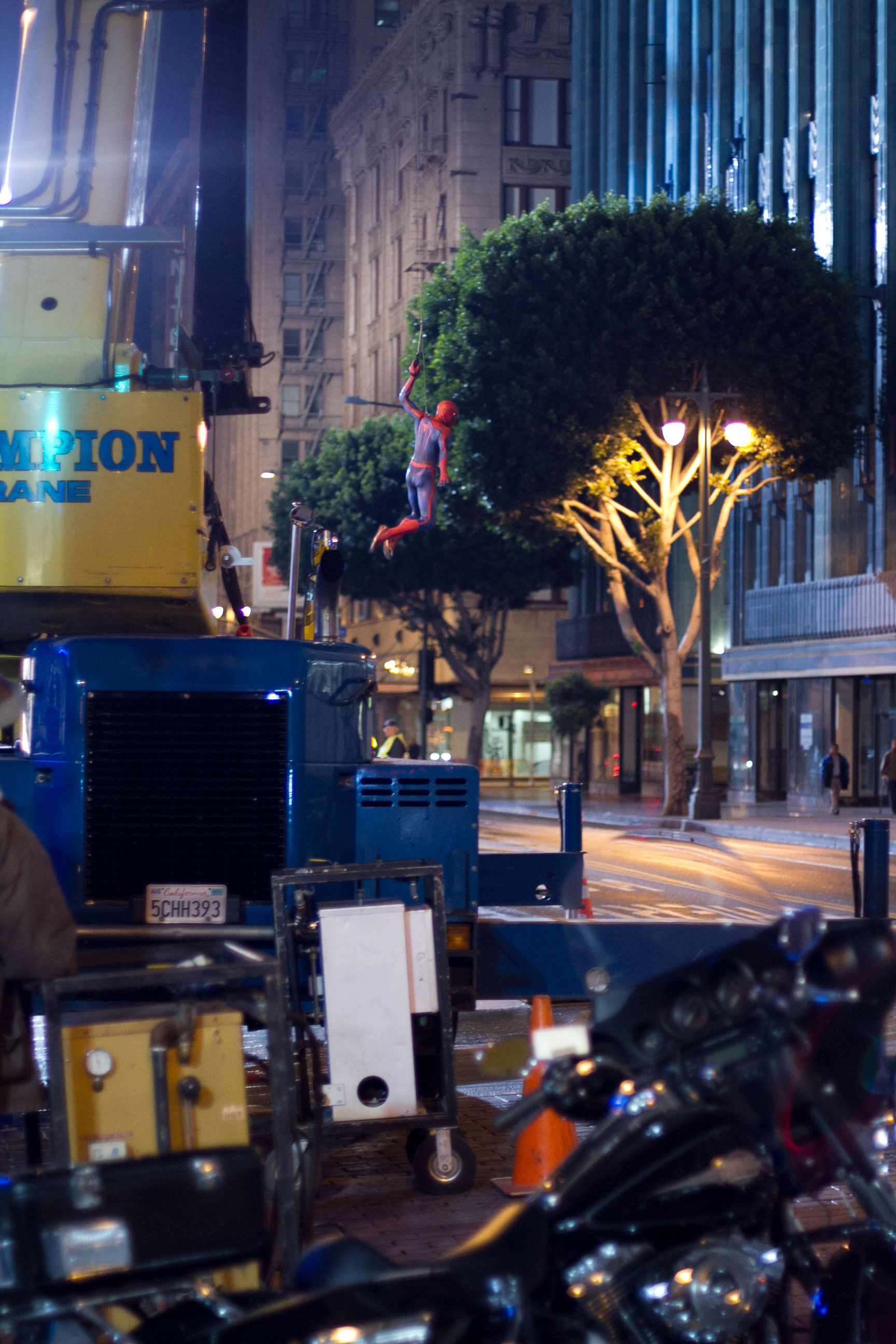 Spider-Man's stunt double shoots in a Carl's Jr. Commercial promoting "The Amazing Spider-Man".